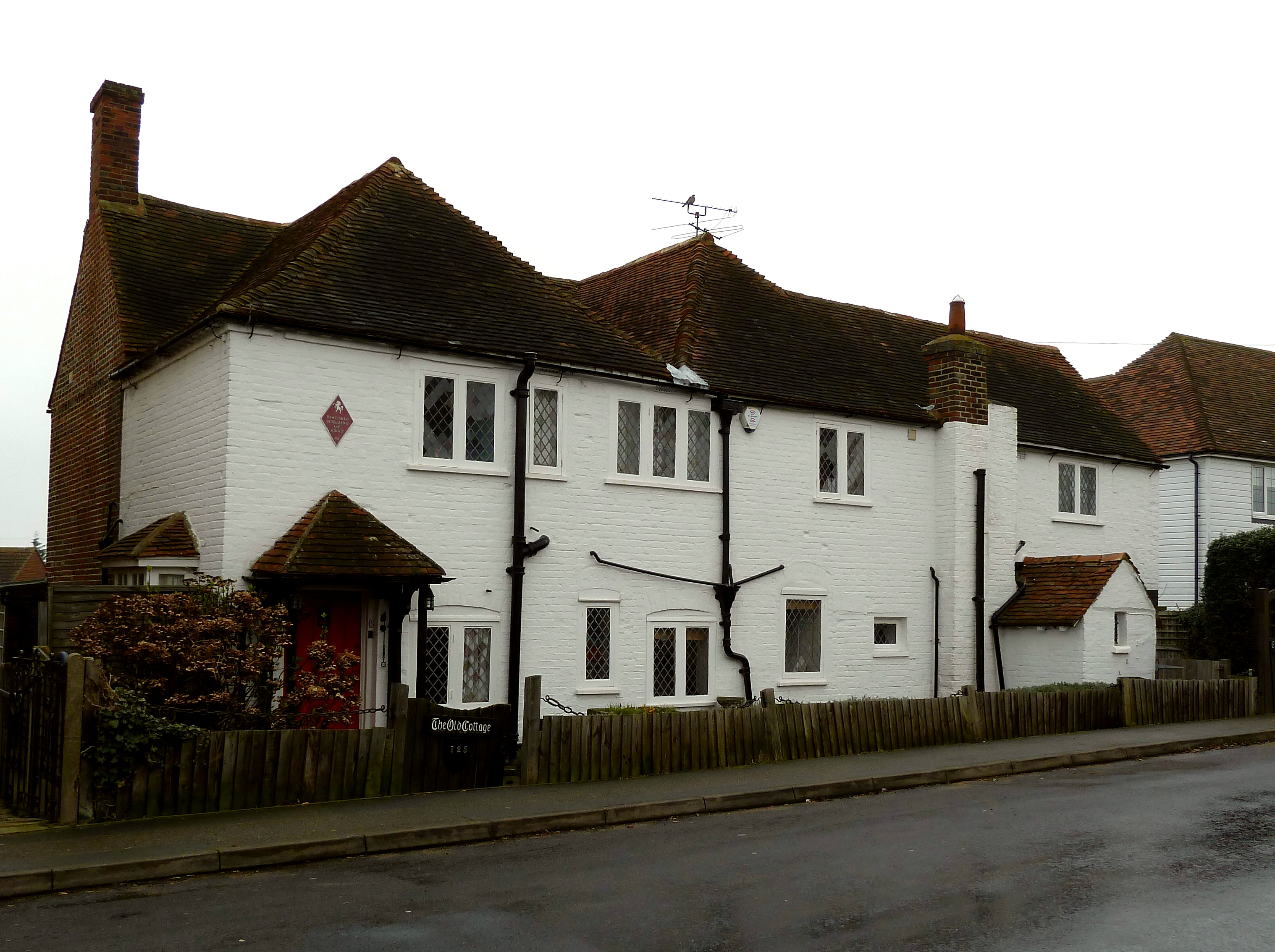 The Old Cottage, Grand Drive, Herne Bay, Kent, England. A 17th century listed building and home to author Will Scott and his family in 1933 to 1934.